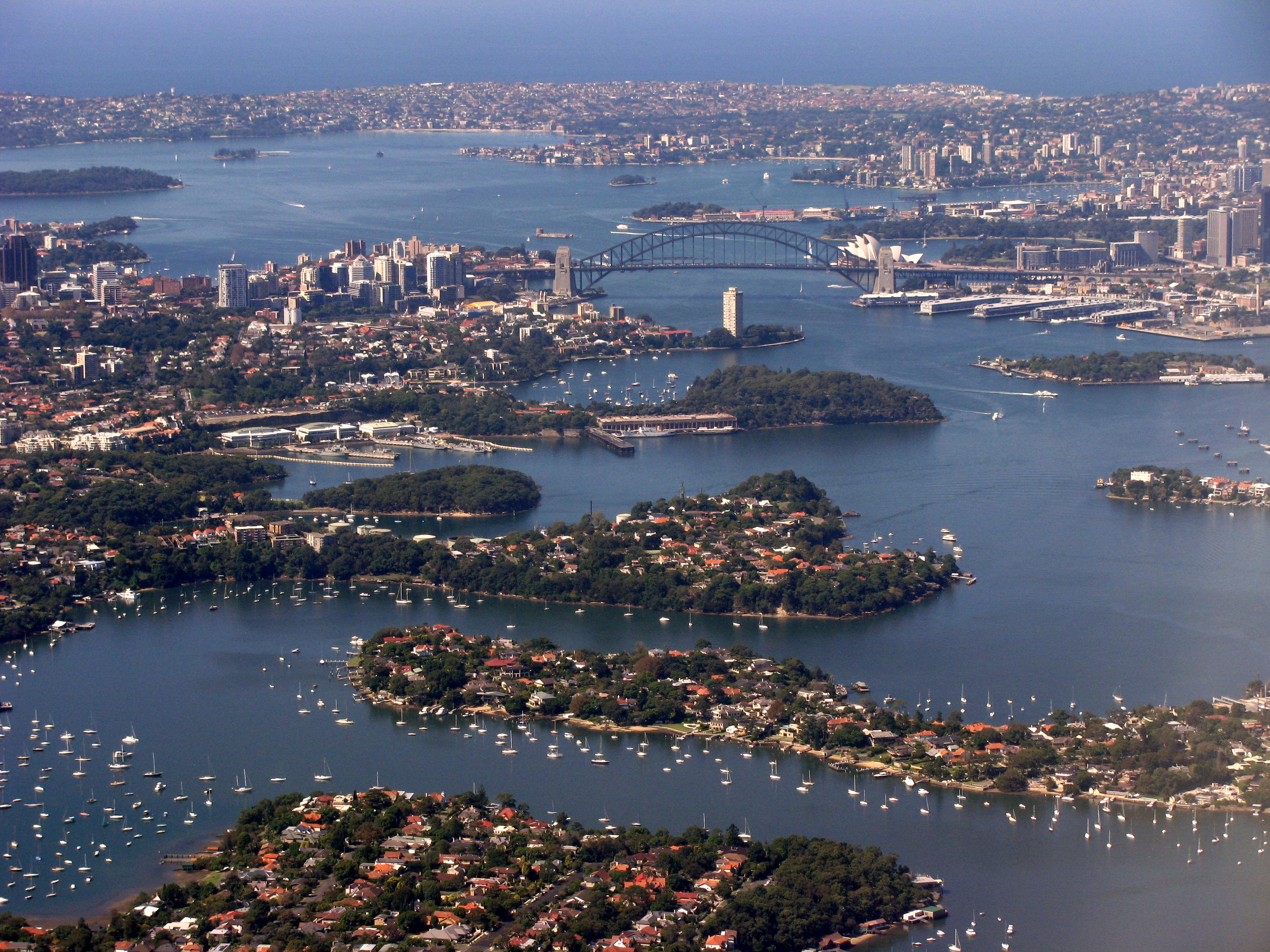 So that's where all of Sydney's yachts are hiding on a weekday ...